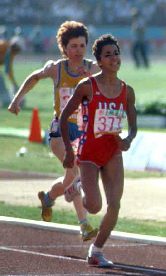 Fiţa Lovin, Kim Gallagher, 1984 Olympics